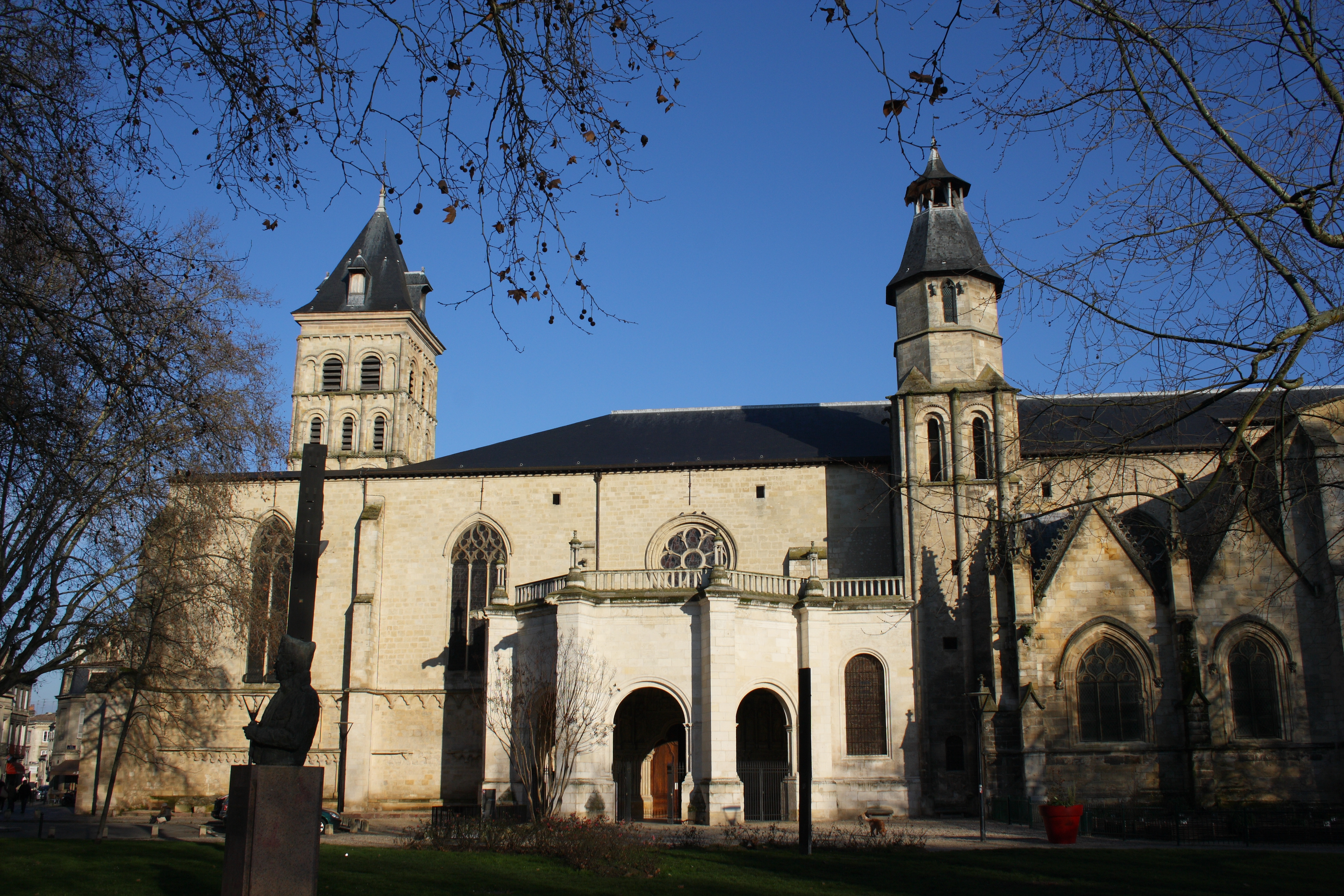 katholische Pfarrkirche Saint-Seurin in Bordeaux